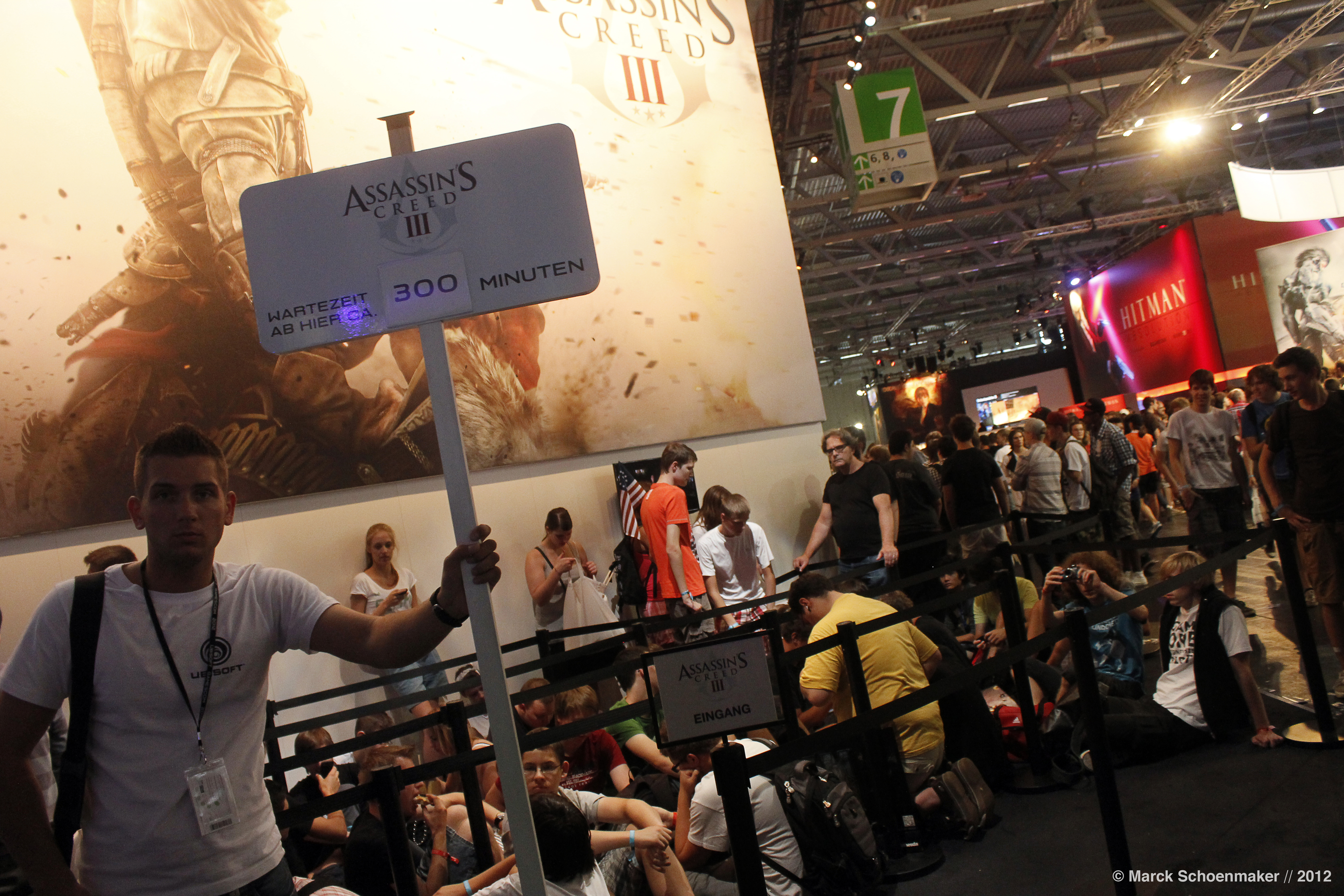 Assassin's Creed III